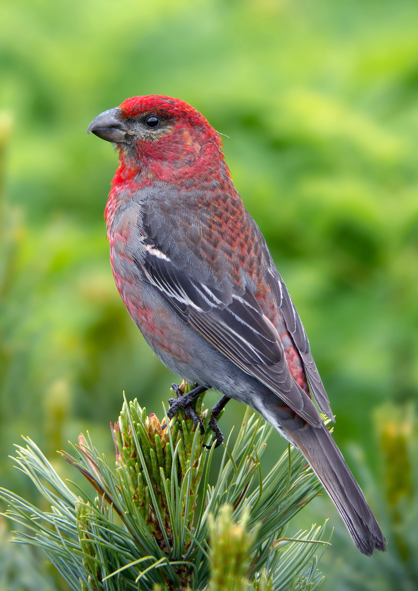 Pine Grosbeak Pinicola enucleator, Asahidake, Hokkaido, Japan